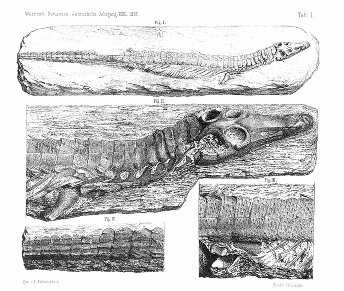 A lithographic illustration of the holotype of Dyoplax arenaceus, originally from O. Fraas's paper "Dyoplax arenaceus, ein neuer Stuttgarter Keuper-Saurier.", published in Jahreshefte Vereins vaterländ. Naturk. Württemberg in 1867.